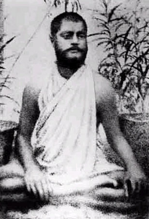 Image of Swami Vivekananda, approx 1885 in Kolkata, India